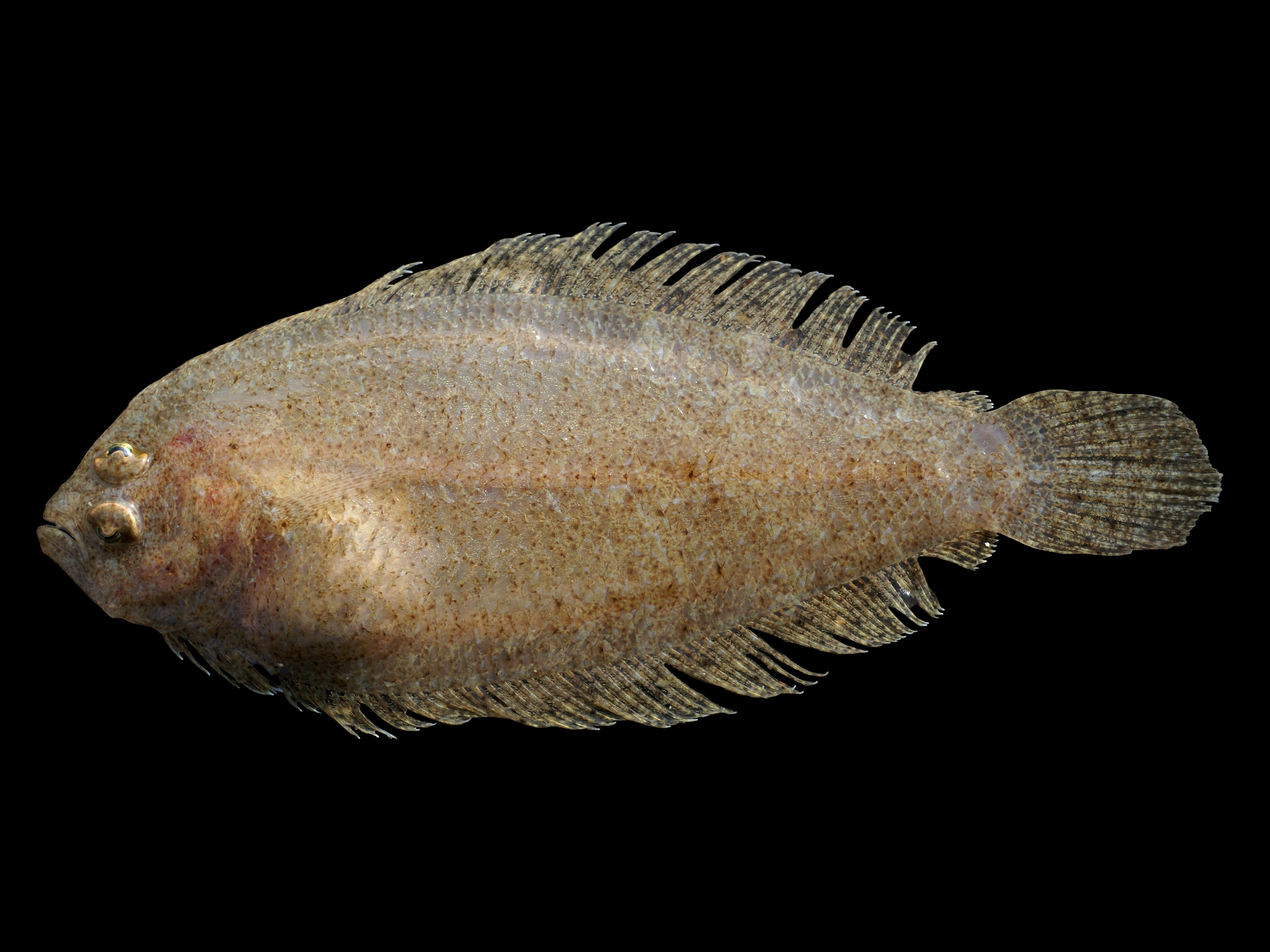 A scaldfish from the Oostdyck bank in the Southern North Sea.